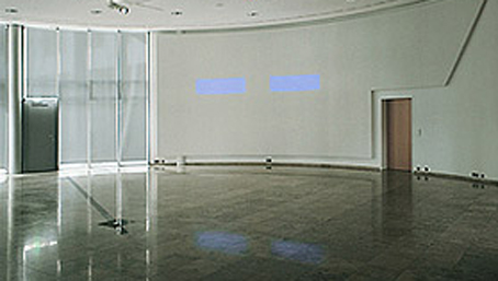 Site-specific artwork of Charly Steiger, realised at the Rüsselsheim townhall 1994